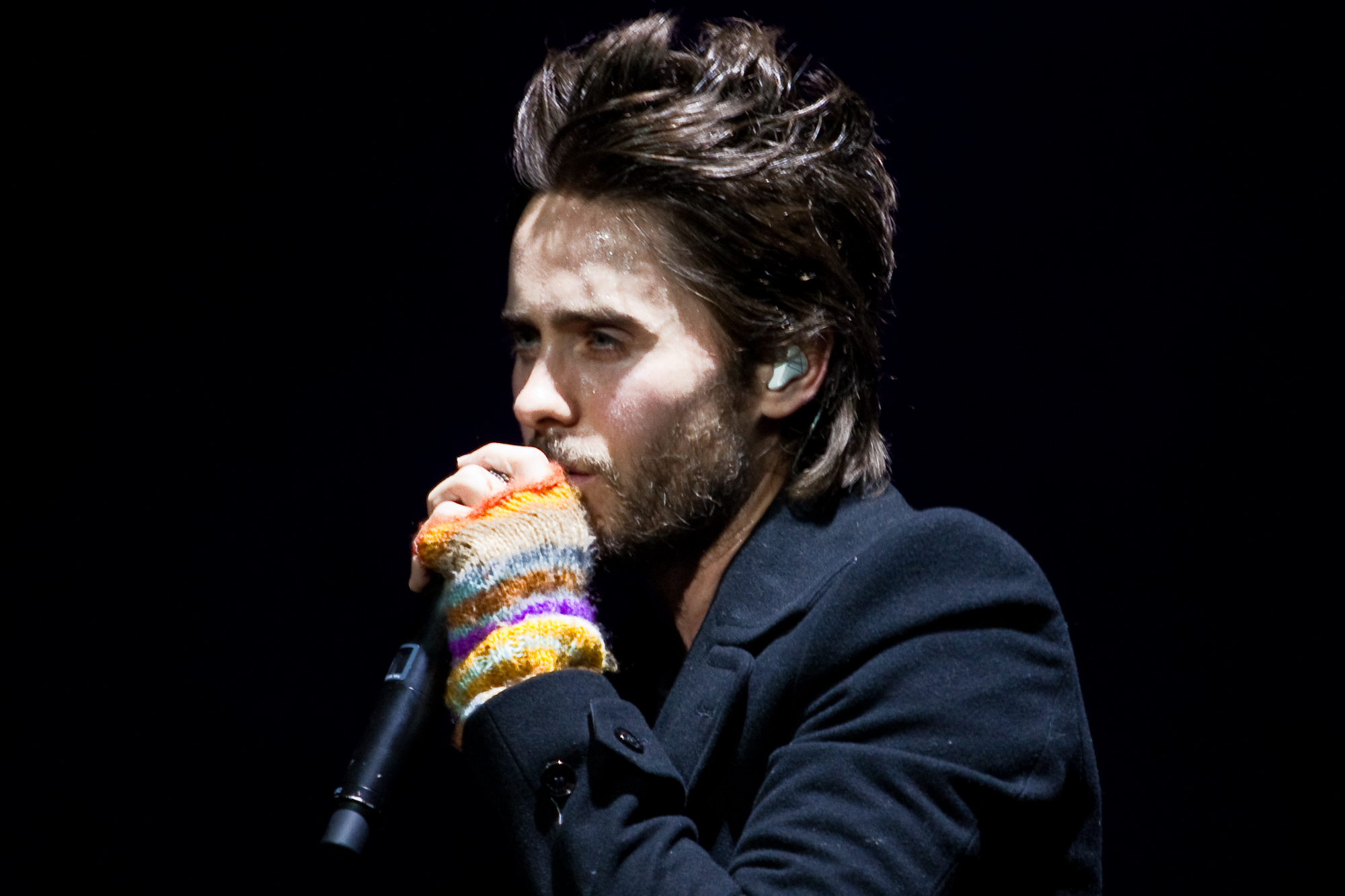 30 Seconds to Mars-2